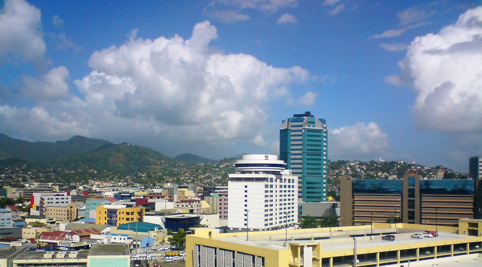 BIR Tower, Customs Building of the Government Plaza in centre of photo as well as the now Radisson Hotel